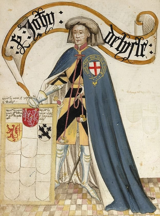 John de Lisle KG from the Bruges Garter Book, 1430/1440, BL Stowe 594